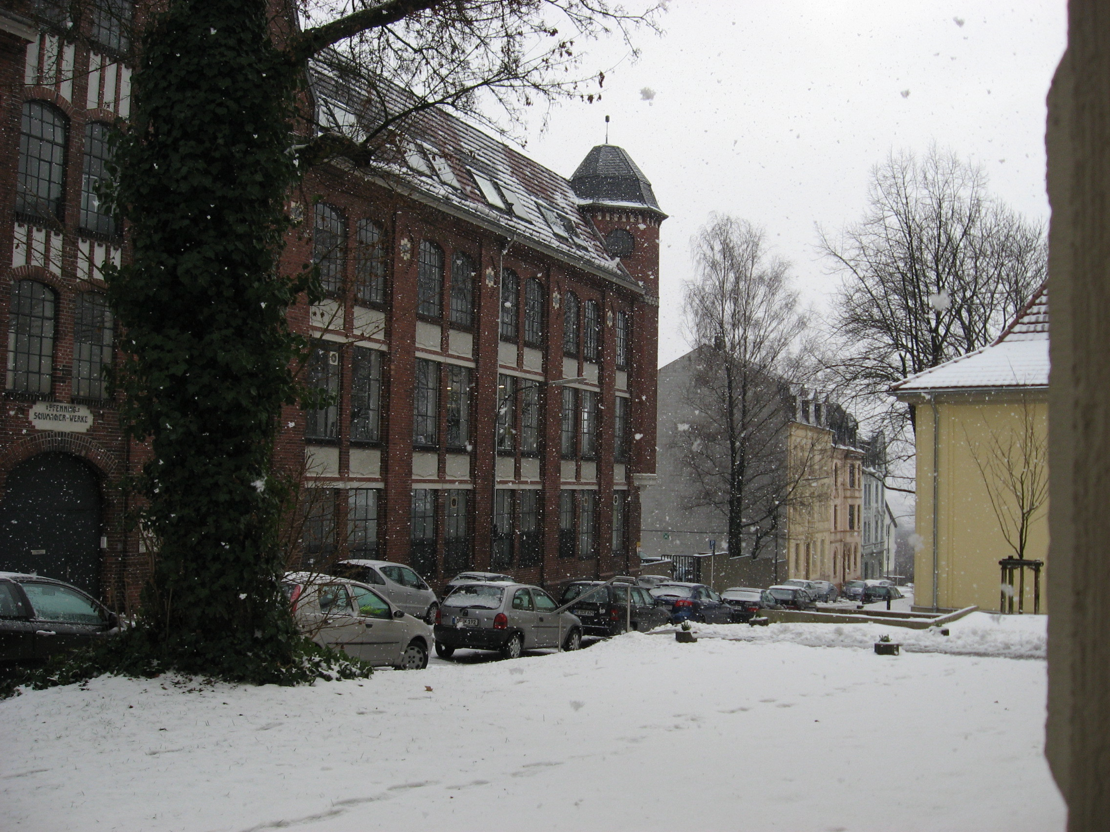 Alarichstraße 18, also known as PSW Knopffabrik at Wuppertal